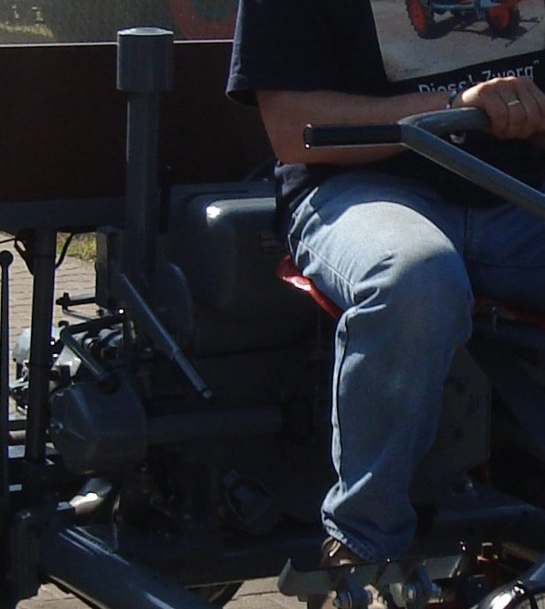 Farymann engine type DL1 with 7.5 hp in a K&B Dieselzwerg (1952)